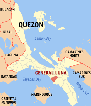 Map of Quezon showing the location of General Luna